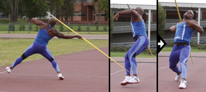 javeline throw